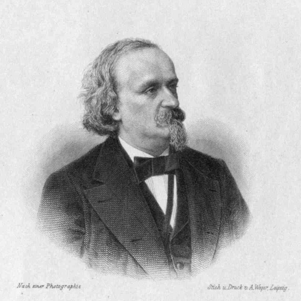 German musicologist and composer August Reissmann (1825-1903) by August Weger (1823-1892).